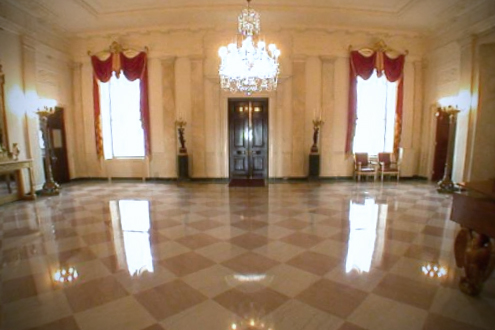 The White House Entrance Hall, or Grand Foyer, facing north.